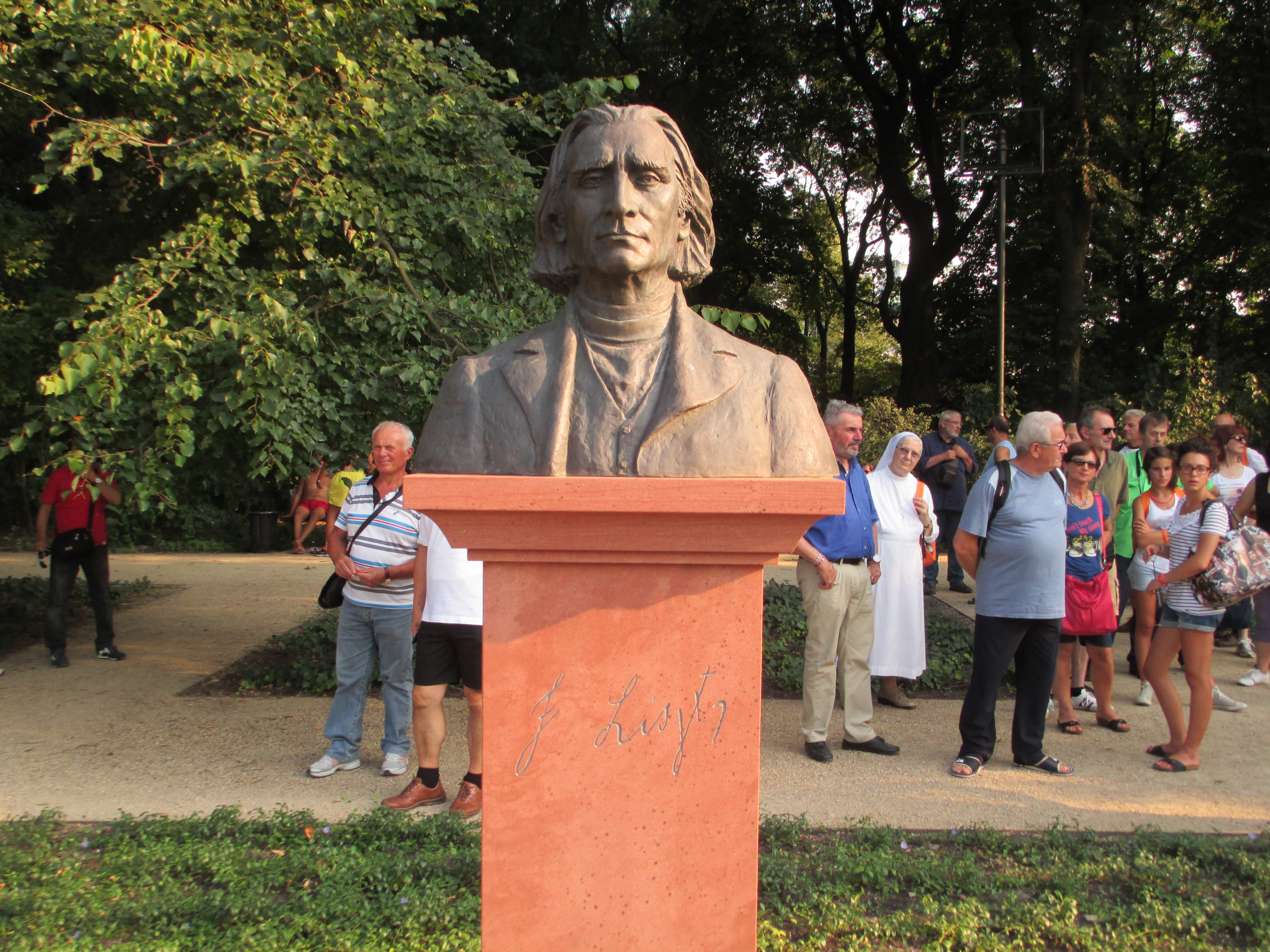 bust of franz kiszt in lazianki park, warsaw